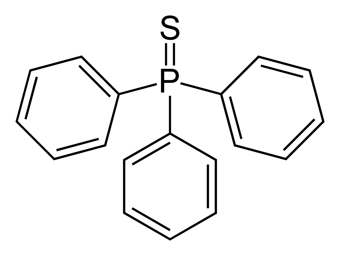 Skeletal formula of the triphenylphosphine sulfide molecule